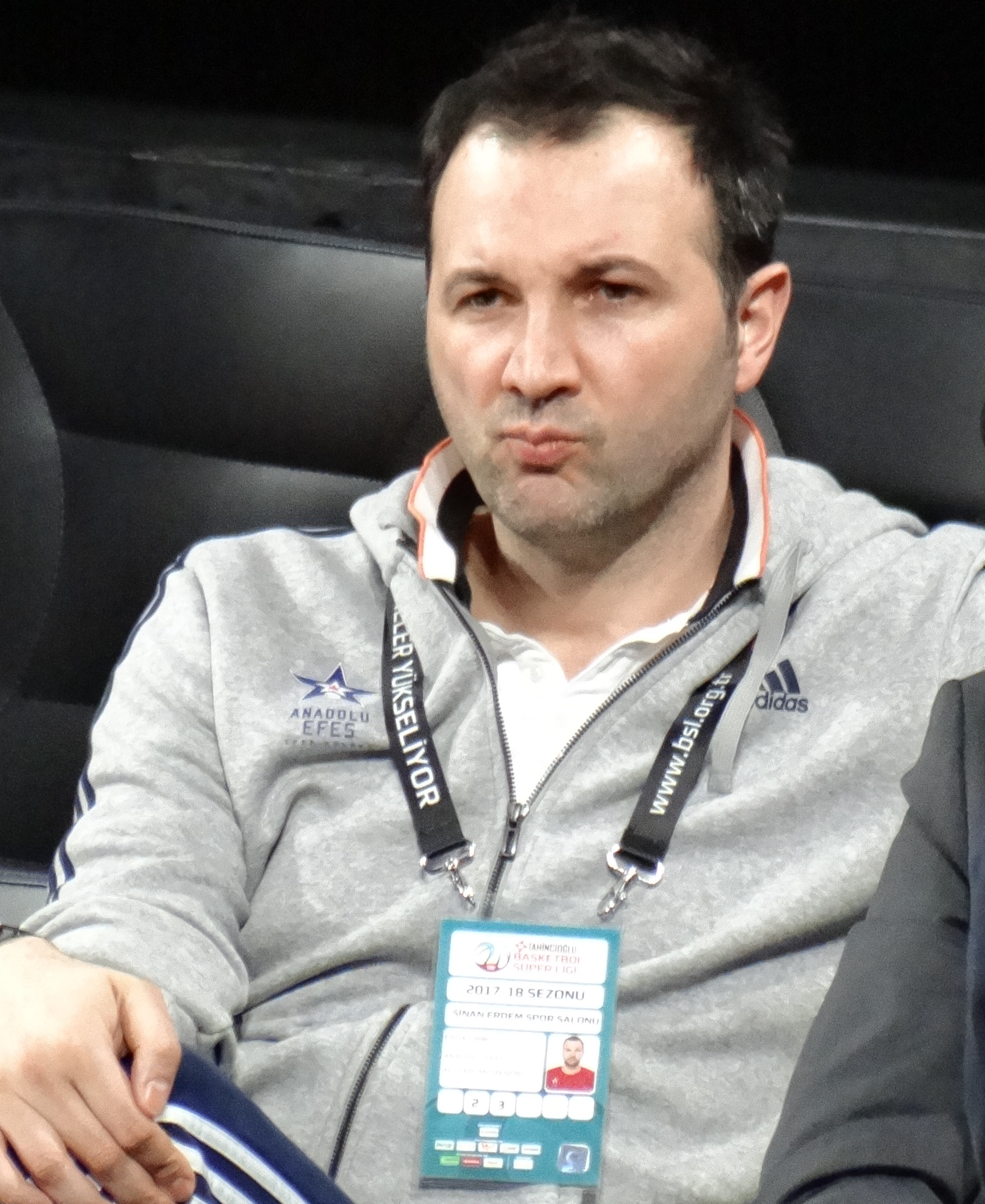 Erdal Bibo Anadolu Efes vs Tofaş SK 20180326